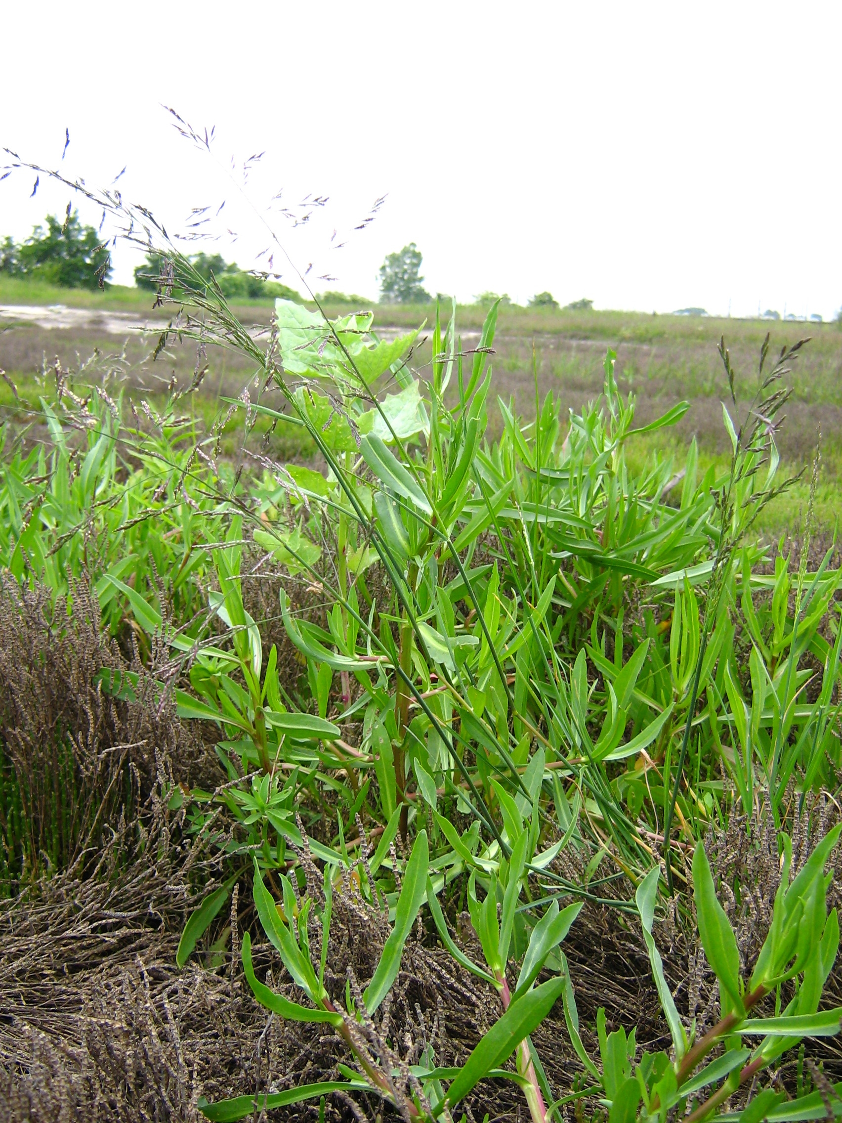 Aster tripolium, Atriplex hastata var. salina, Puccinellia distans, Salicornia europaea – anthropogenic salt marsh in Poland